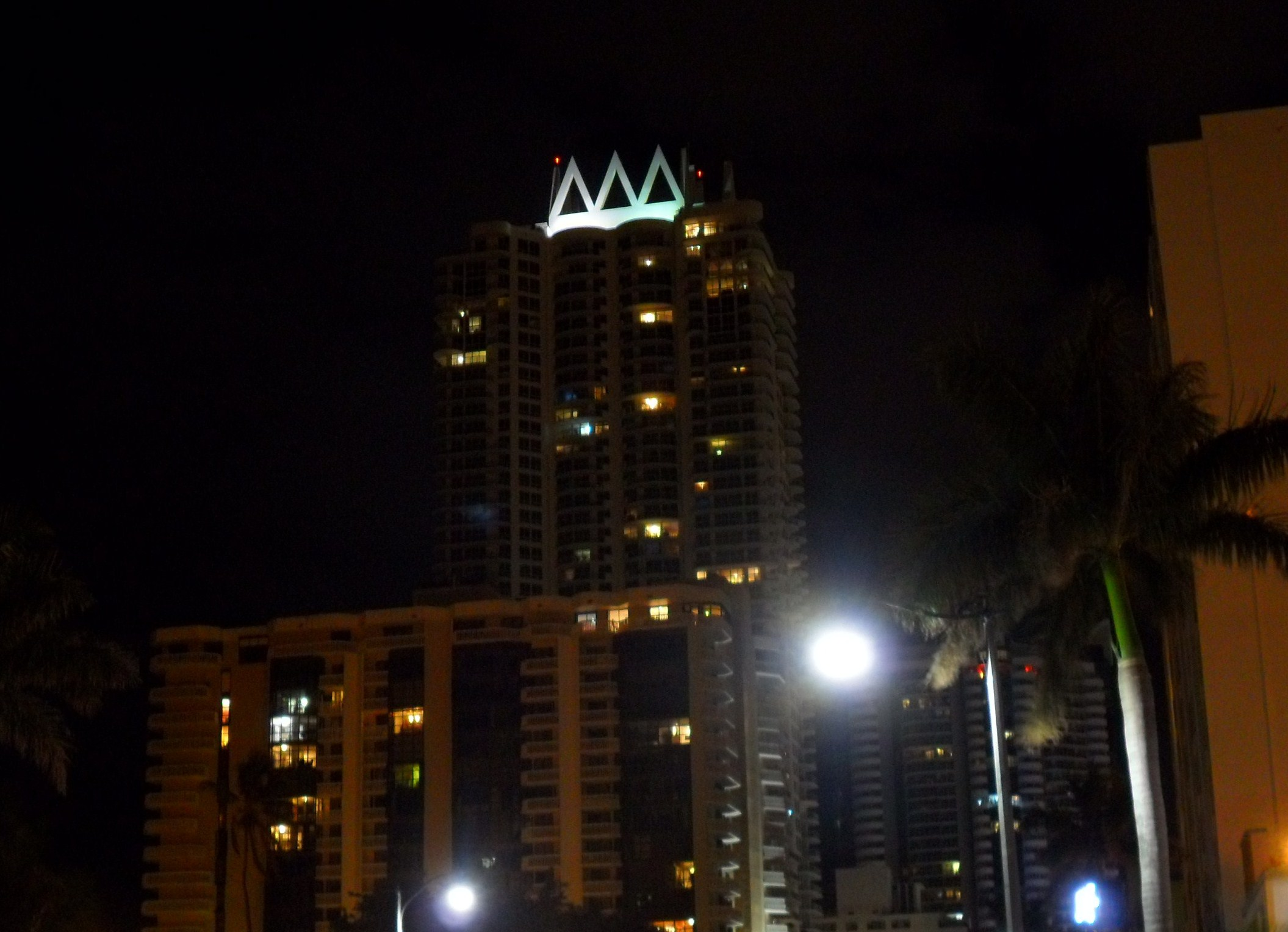 Looking south at Akoya Condominiums in Miami Beach lit white at night.